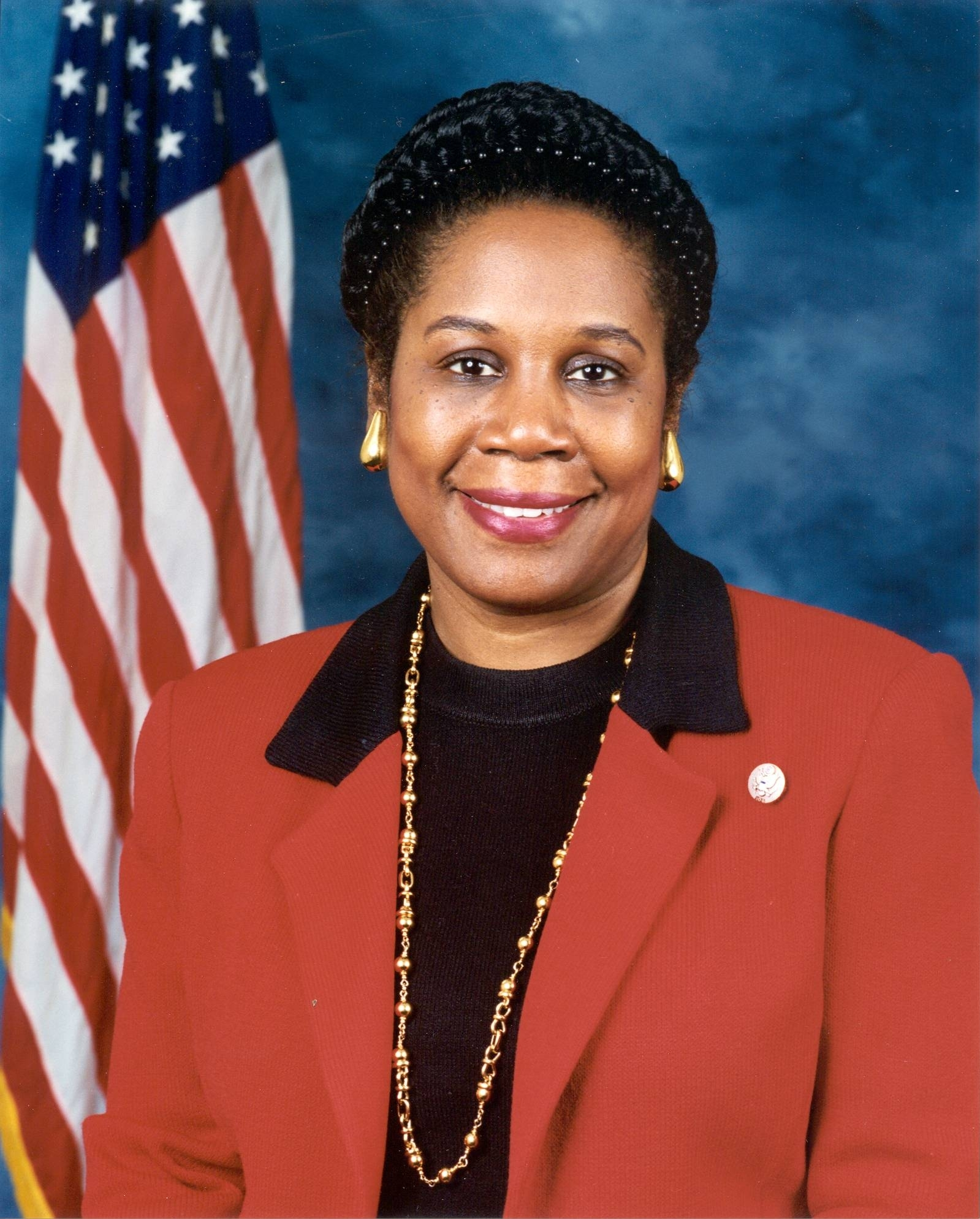 Sheila Jackson-Lee, member of the United States House of Representatives.